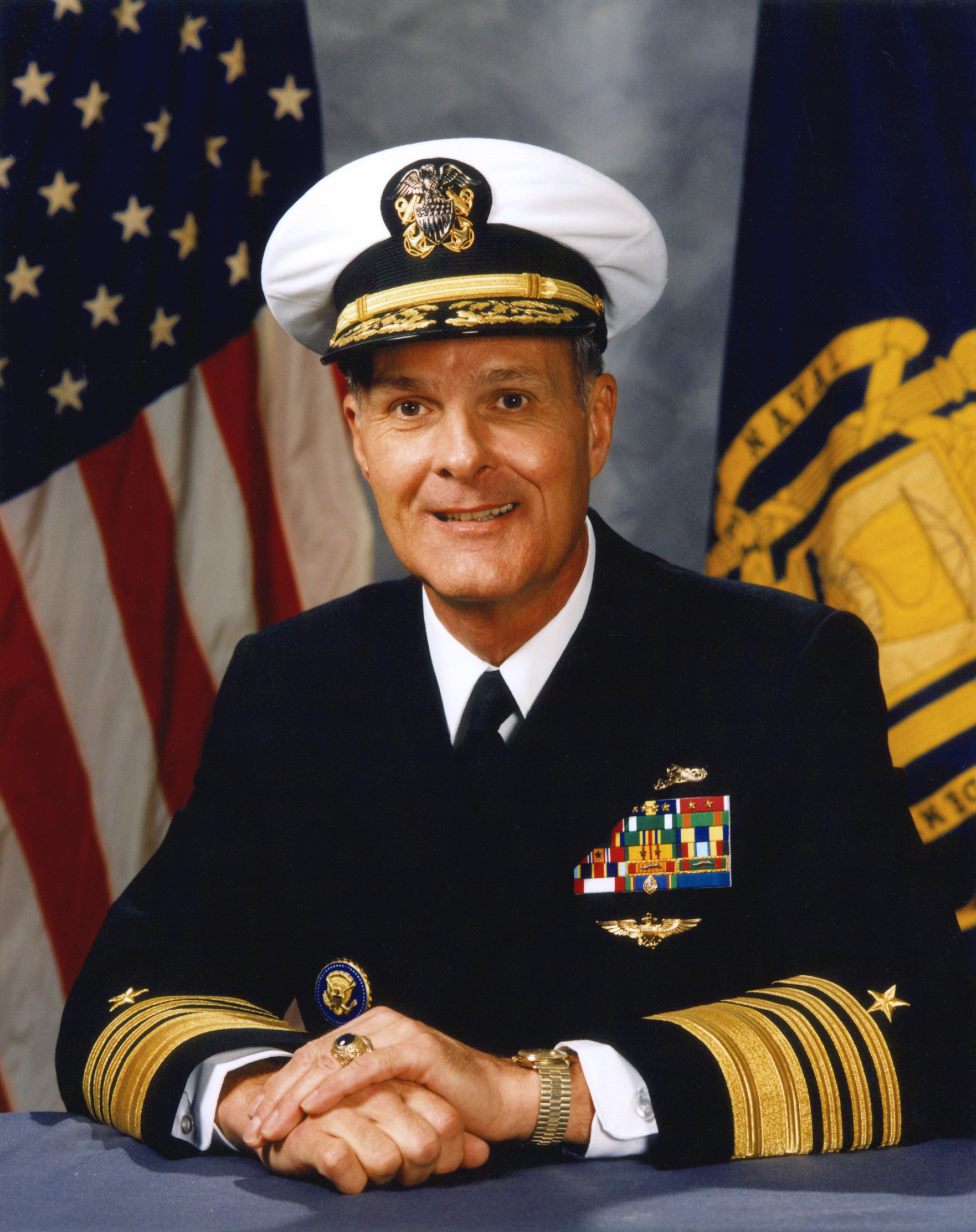 Official portrait of Charles R. Larson, Superintendent, US Naval Academy